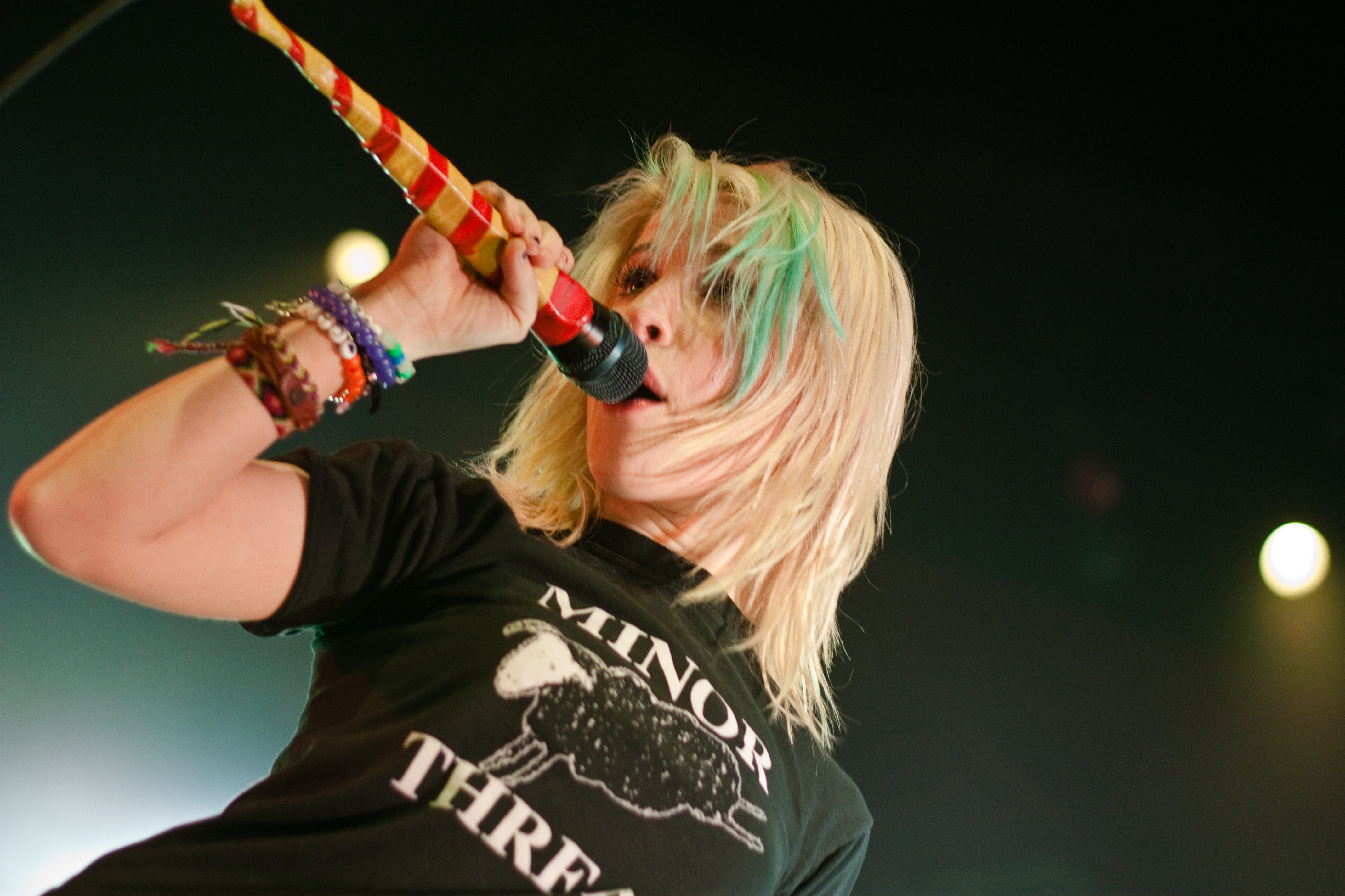 Hayley Williams performing with Paramore at the Warfield